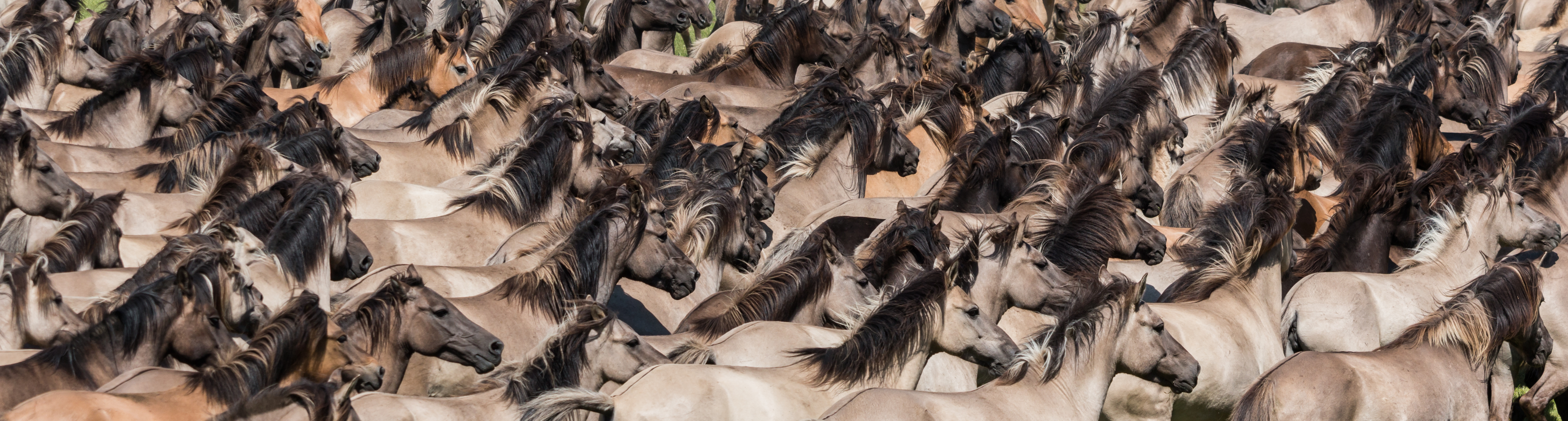 Herd in the Wildpferdebahn, Merfelder Bruch, Dülmen, North Rhine-Westphalia, Germany; Wildpferdefang 2014